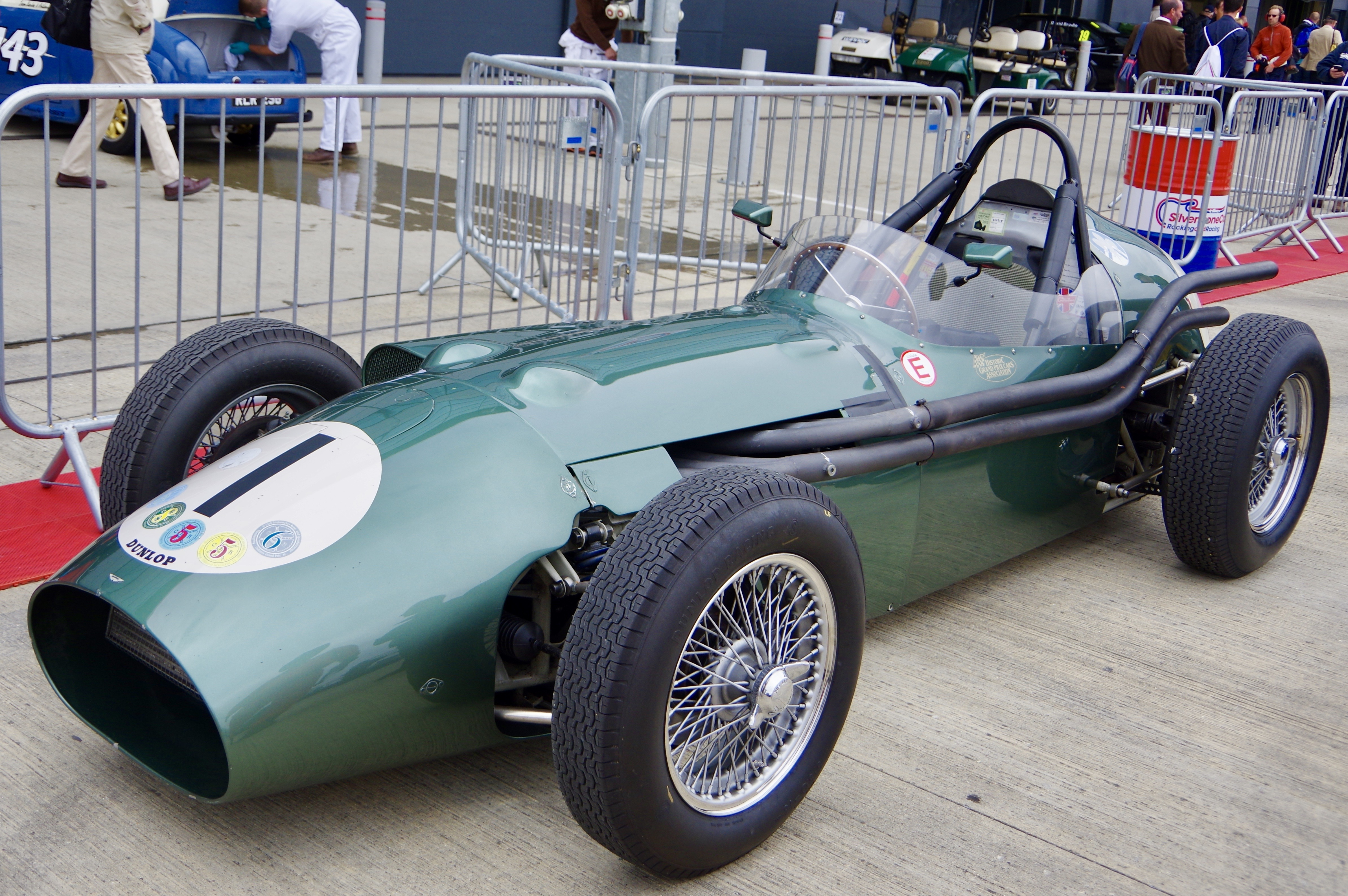 Aston Martin DBR4 2017 Silverstone Classic.